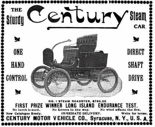 Century Motor Vehicle Co. - Syracuse, New York - 1903